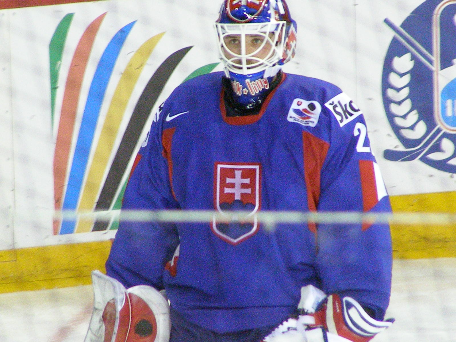 Ján Lašák, goaltender for the Slovakia men's national ice hockey team, during a break in action against Norway men's national ice hockey team at the 2008 IIHF World Championship.